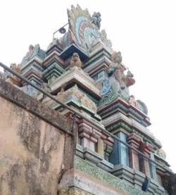 Thanjavur badrakaliamman temple தஞ்சாவூர் பத்ரகாளியம்மன் கோயில்